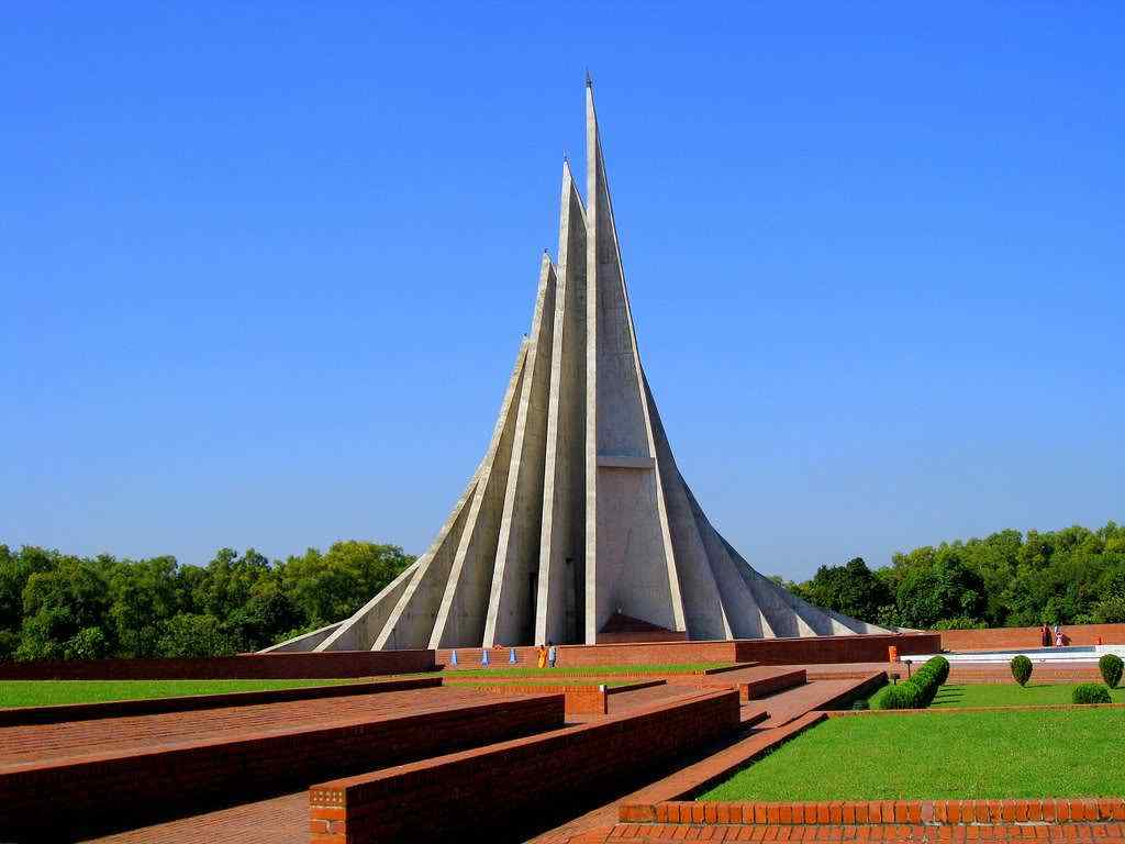 The Jatiyo Smriti Soudho — concrete modernist monument and memorial gardens, near Dakar in central Bangladesh. It is the symbol of the valour and the sacrifice of those killed in the Bangladesh Liberation War of 1971.